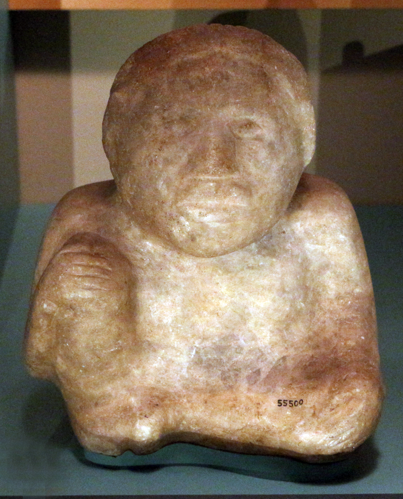 A Mississippian culture stone statue made of fluorite was found buried in Mound 1 at the Ware Mounds Site by Thomas Perrine in 1873 and nicknamed "Anna". The specimen shows many similarities to other examples found at Angel Mounds near Evansville, Indiana and Obion Mounds near Paris, Tennessee. It is now part of the collection of the Field Museum of Natural History in Chicago, Illinois.[1][2]